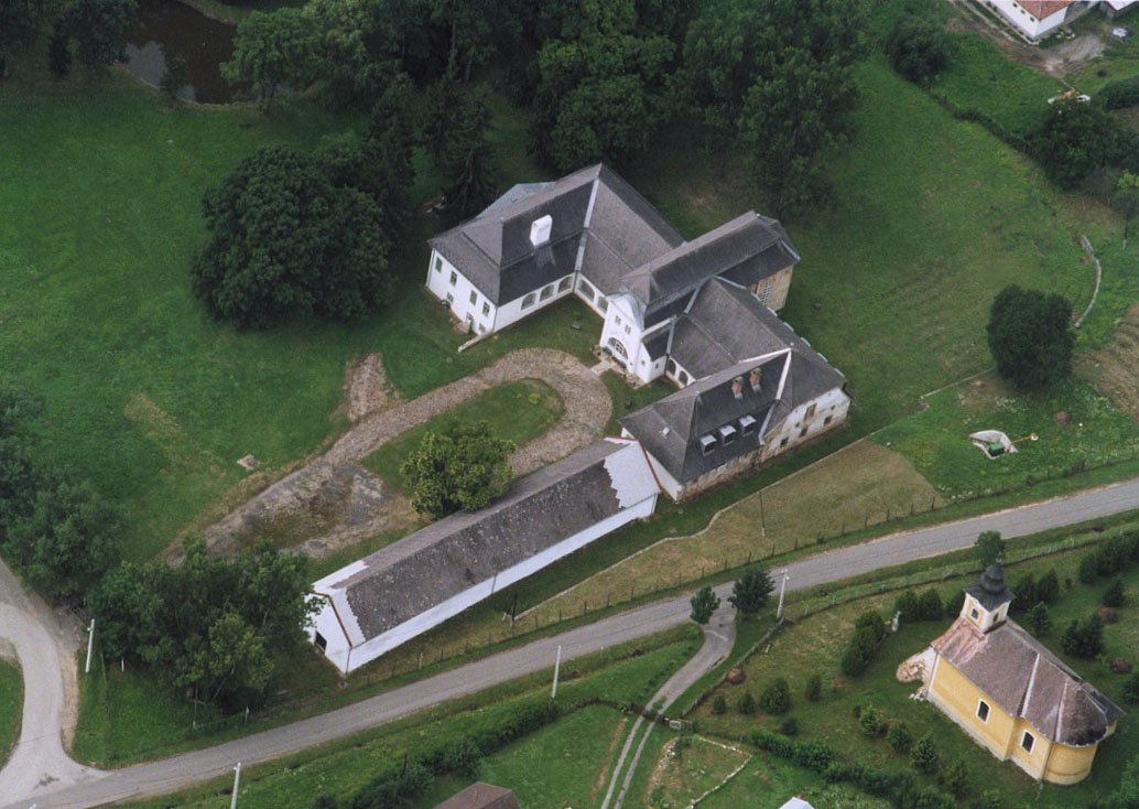 Palace - Fáj - Hungary - Europe